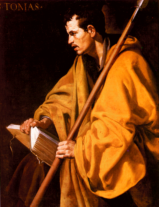 Apostle Thomas (see inscription on upper left hand corner)